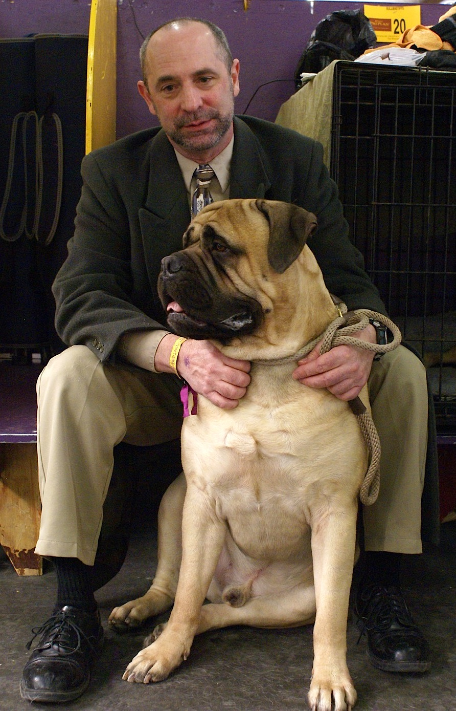 TERMS OF USE: You must link directly to our website, rather than Flickr if you use this photo. Thanks for your cooperation. 2014 Westminster Kennel Club Dog Show, New York City.